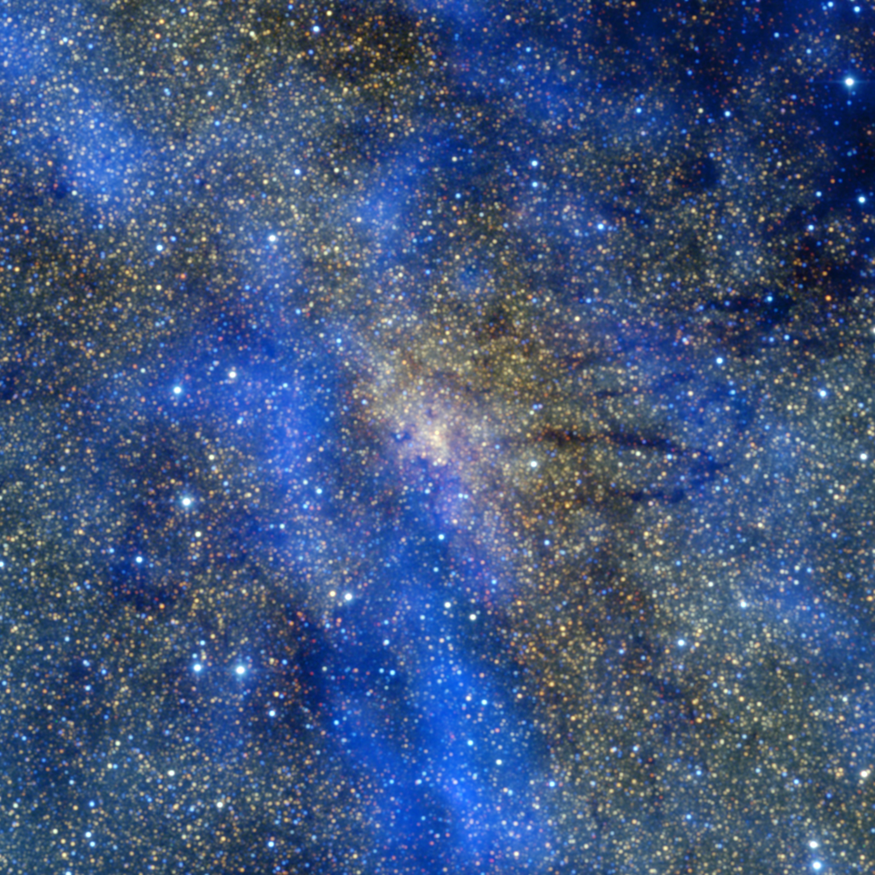 This is a colour composite image of the central region of our Milky Way galaxy, about 26 000 light years from Earth. Giant clouds of gas and dust are shown in blue, as detected by the LABOCA instrument on the Atacama Pathfinder Experiment (APEX) telescope at submillimetre wavelengths (870 micron). The image also contains near-infrared data from the 2MASS project at K-band (in red), H-band (in green), and J-band (in blue). The image shows a region approximately 100 light-years wide.